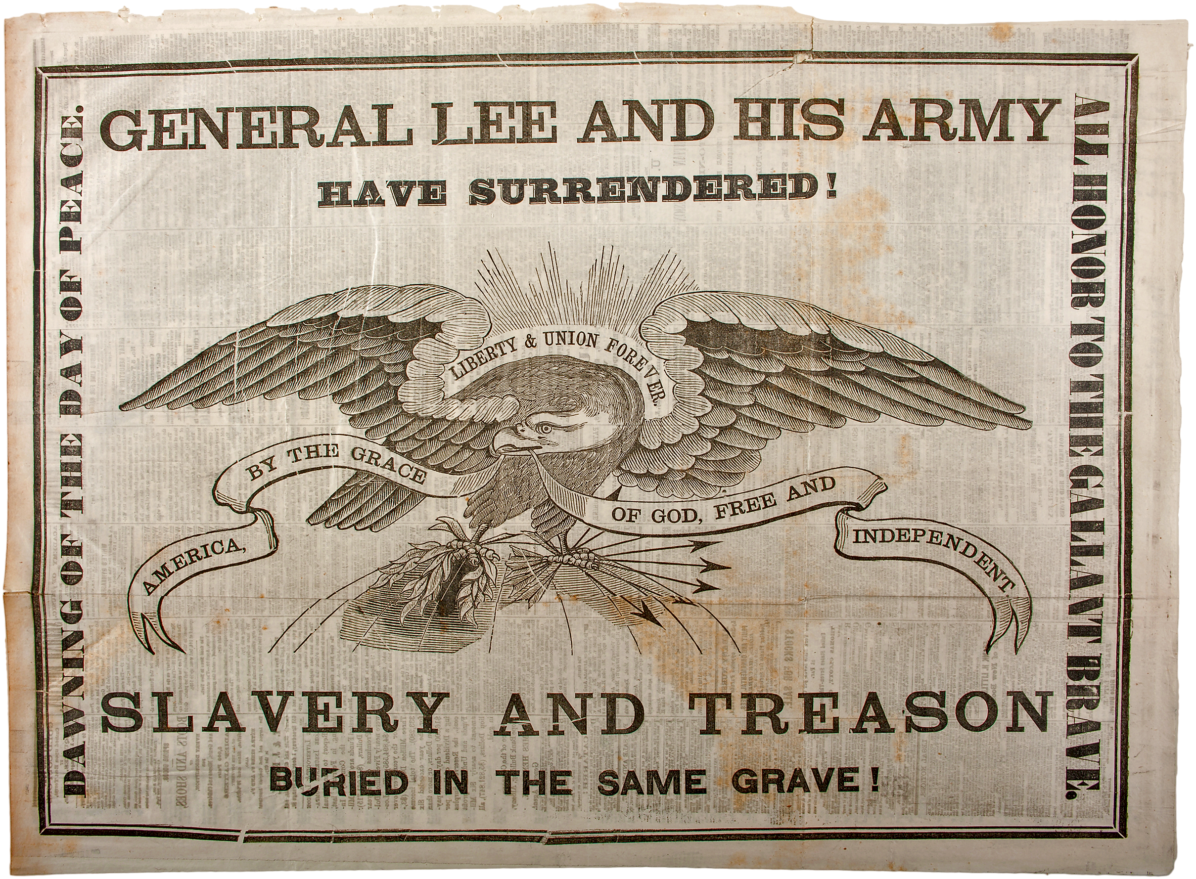 Albany Evening Journal. Albany, NY: Dawson & Co., April 10, 1865. Vol. 36, No. 10,588. 4pp, 20.75 x 28 in. A full page notice (the entirety of page 4) of the Army of Northern Virginia's surrender at Appomattox the day before, with the bold heading "General Lee And His Army Have Surrendered!," above an enormous bald eagle with "Liberty & Union Forever" between its wings and "America, By The Grace of God, Independent," on the banner in its beak. Below, "Slavery and Treason Buried in the Same Grave!," and at the sides, "Dawning of the Day of Peace, and All Honor to the Gallant Brave."